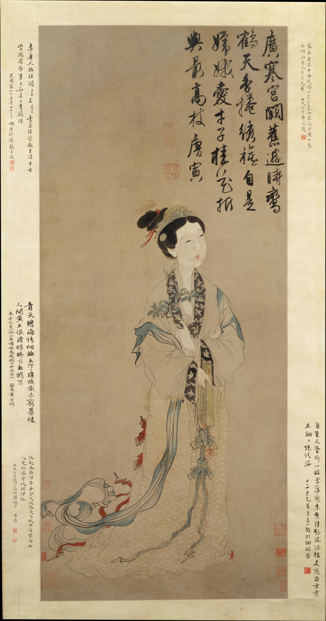 The painting depicts the Chinese goddess Chang'e (嫦娥).